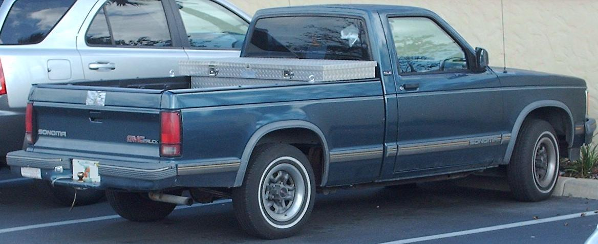 1991-1993 GMC Sonoma photographed in Orlando, FL, USA.